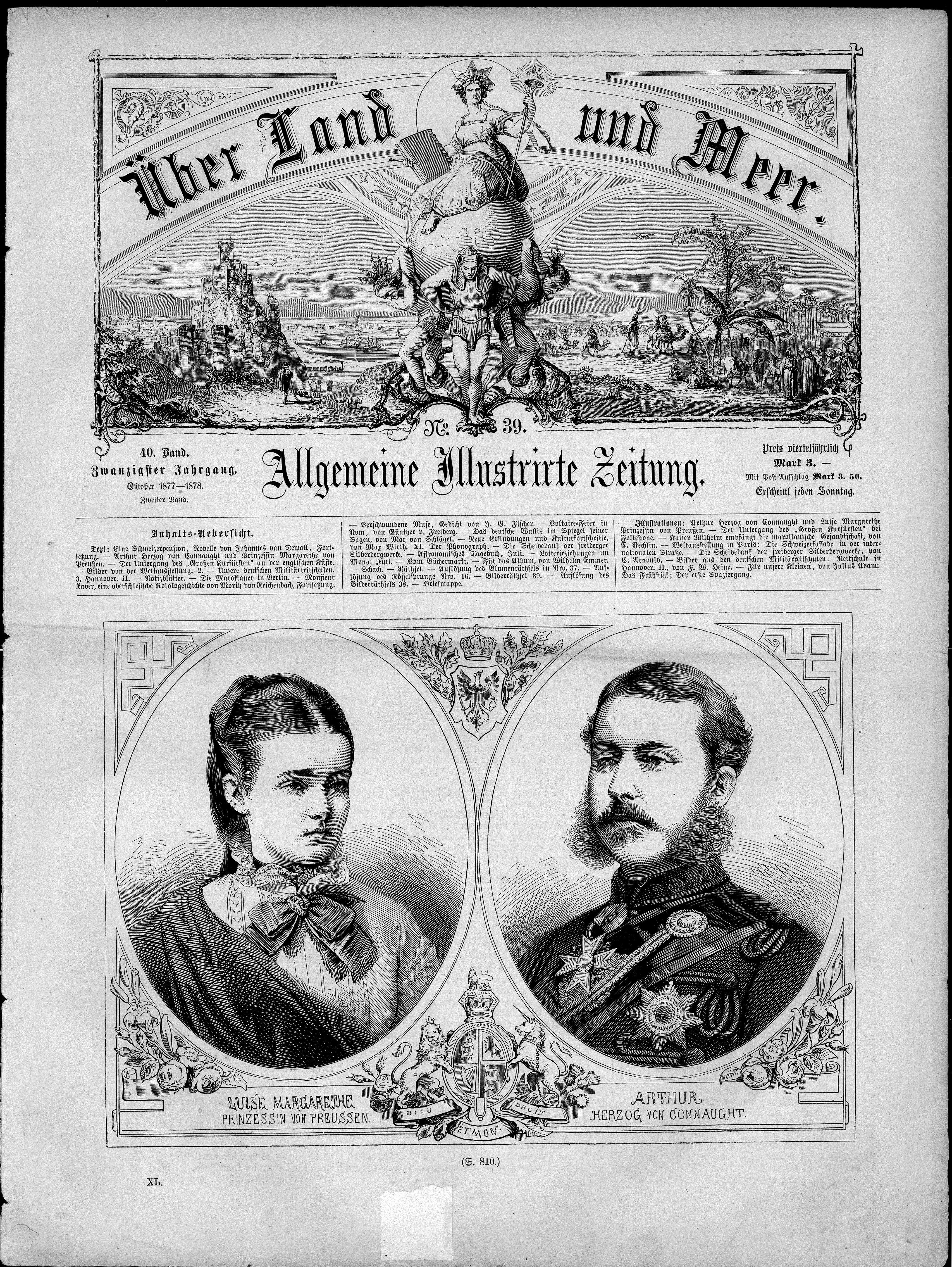 Princess Louise Margaret of Prussia & Prince Arthur, Duke of Connaught and Strathearn, 1877